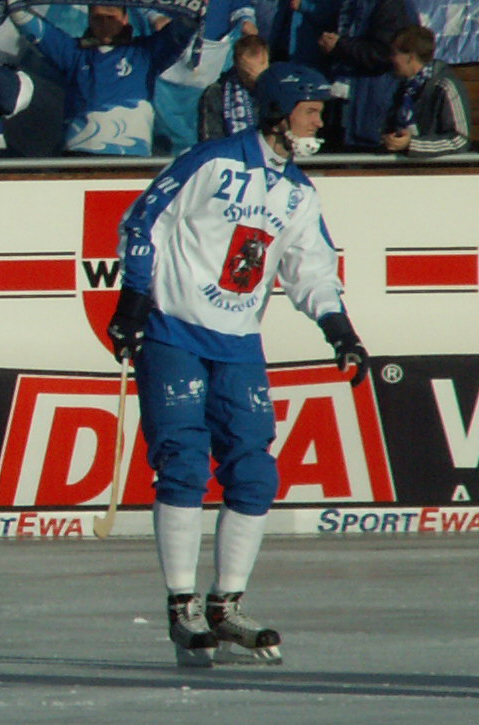 Dmitrij Starikov during Bandy World cup 2007